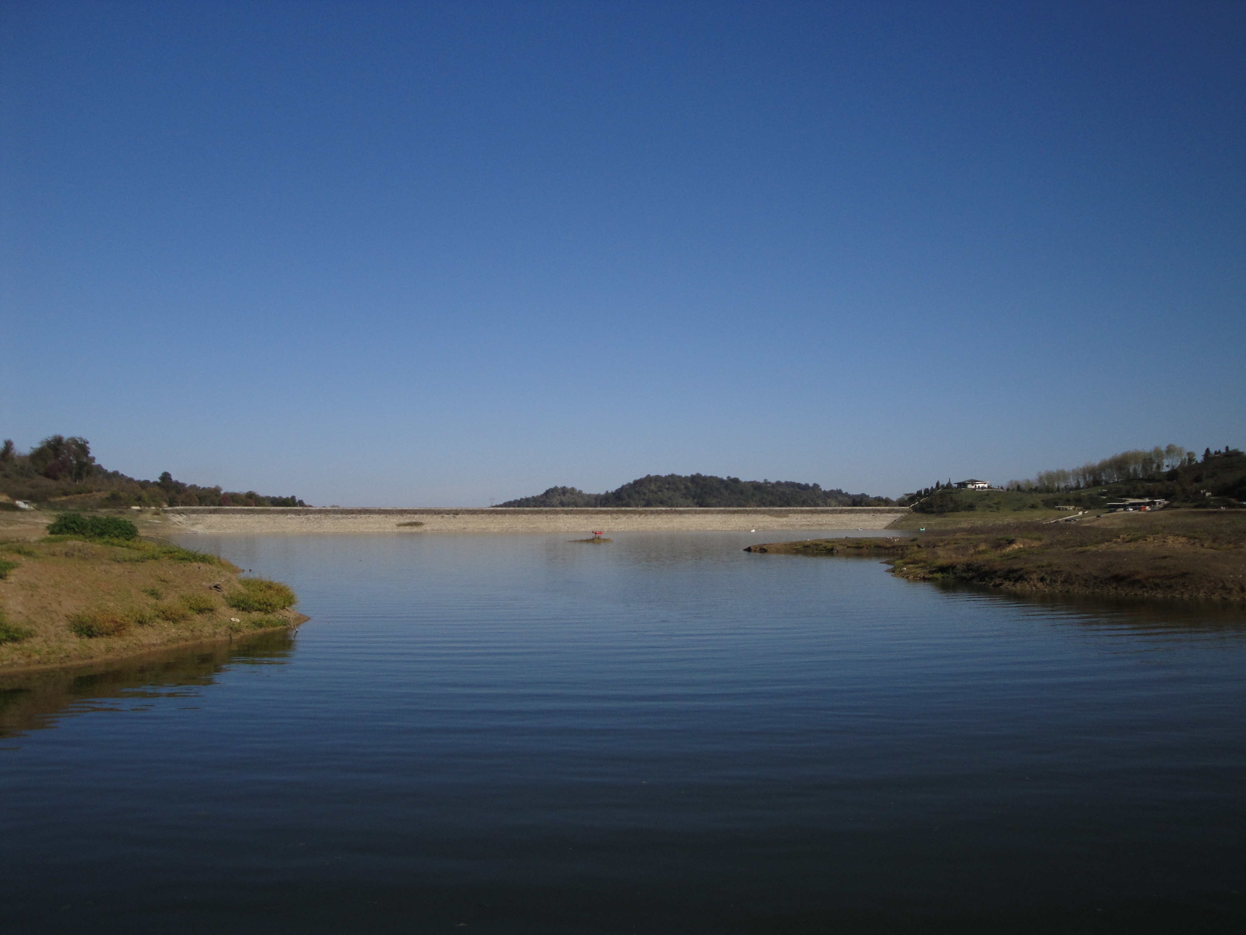 Shiadeh Dam, Babol, Mazandaran, Iran.